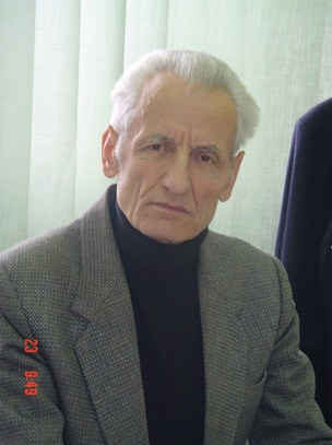 Milaim Berisha